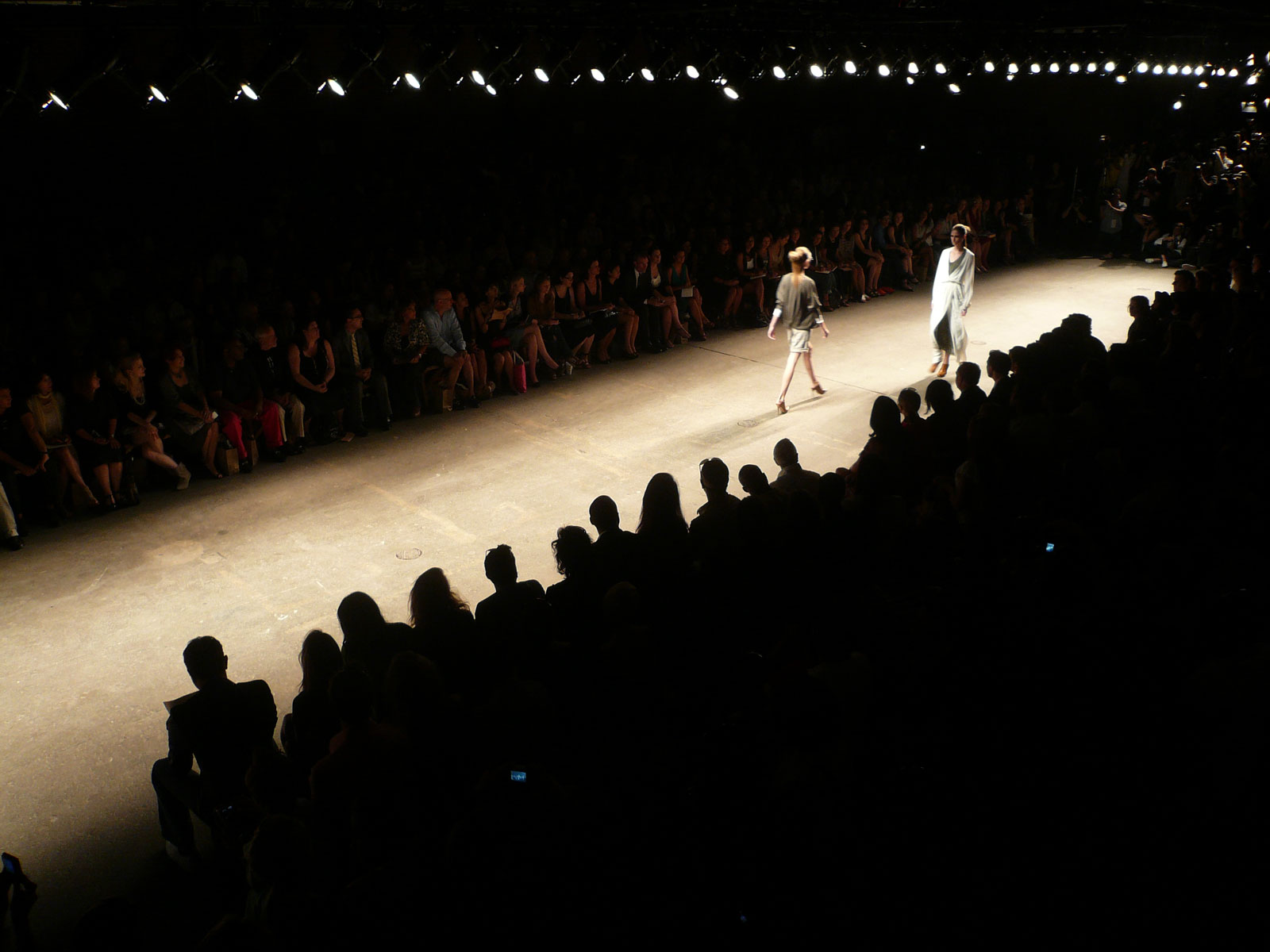 Yigal Azrouel Fashion Show at Eyebeam Center for Art and Technology, New York City, Sept 5th, 2008